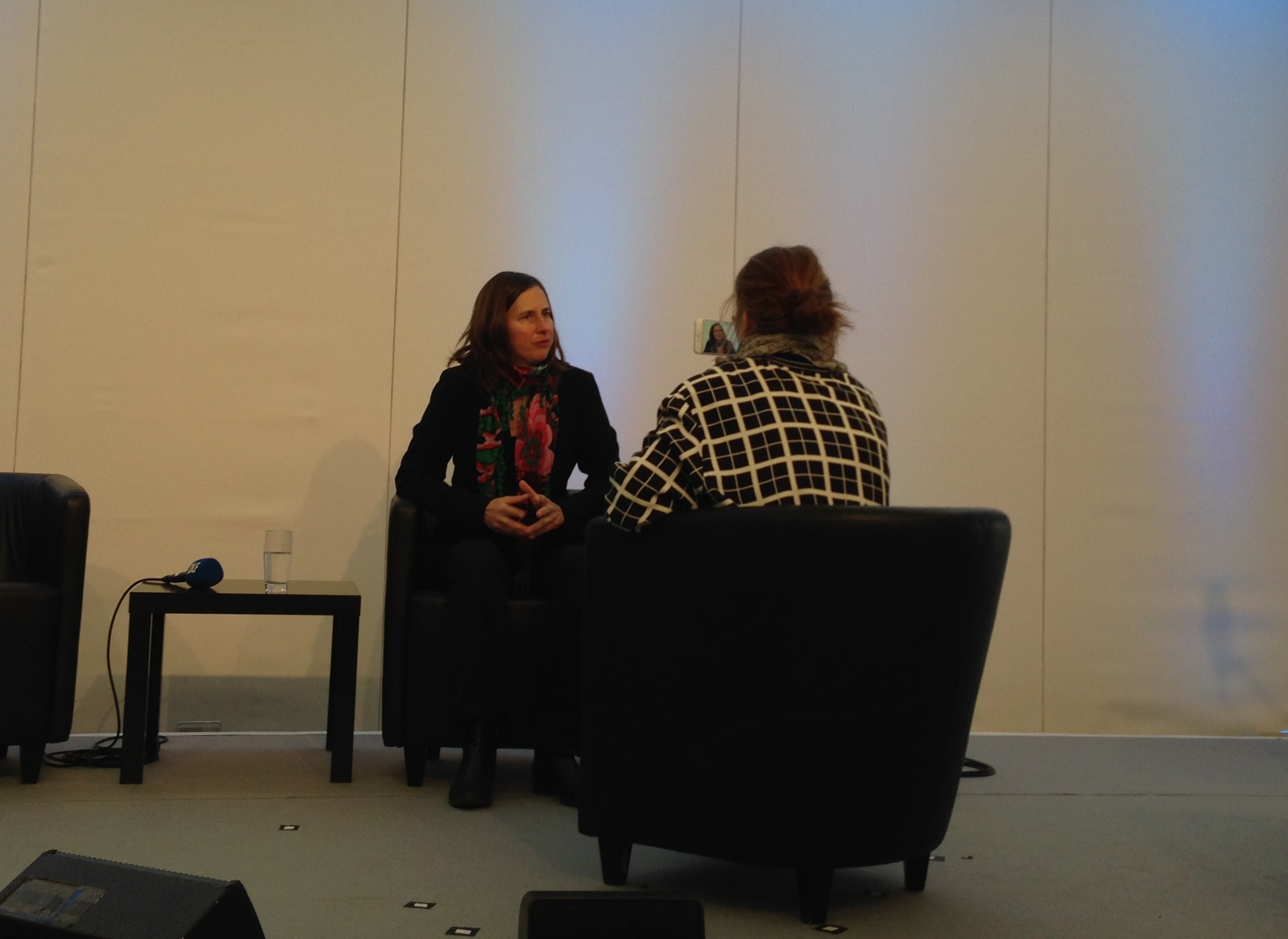 Kathrin Röggla, writer and author of radio dramas, at "Kölner Kongress 2017" at 2017-03-11 in Cologne